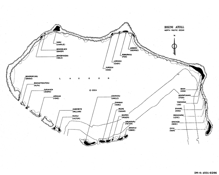 Sixty-seven nuclear tests were conducted at Bikini Atoll. The islands of Bokonijien, Aerokojlol, and Nam were vaporized by the nuclear explosions.